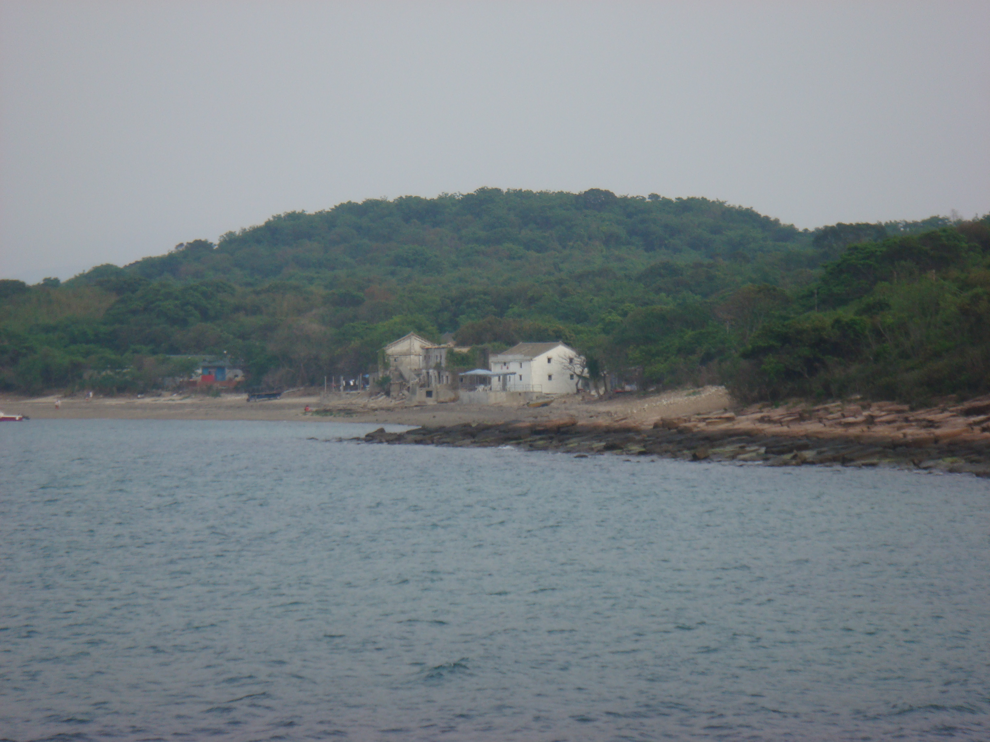 View of the village of Sha Tau (沙頭), on Tung Ping Chau, Hong Kong